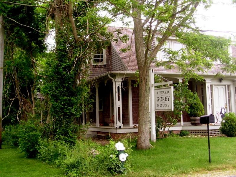 Edward Gorey's house in Yarmouth, Cape Cod